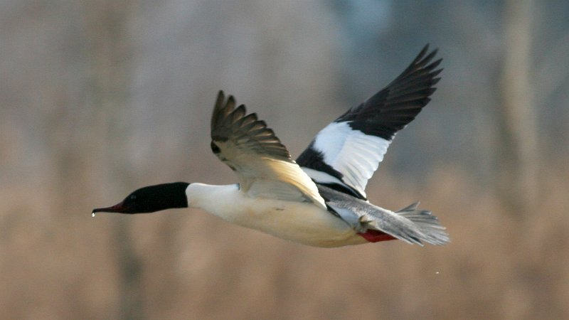 Merganser (Mergus merganser) This image was created by Ken Billington. If you are interested in a high resolution copy of this image, please contact the author Ken Billington in order to negotiate conditions of use. Do not copy this image illegally by ignoring the terms of the license below, as it is not in the public domain. If you would like special permission to use, license, or purchase the image please contact me to negotiate terms. More free images can be found on Ken Billington's Bird & Wildlife Photography.